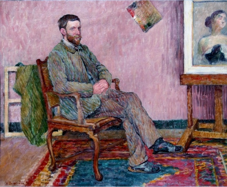 Self-portrait in the Workshop